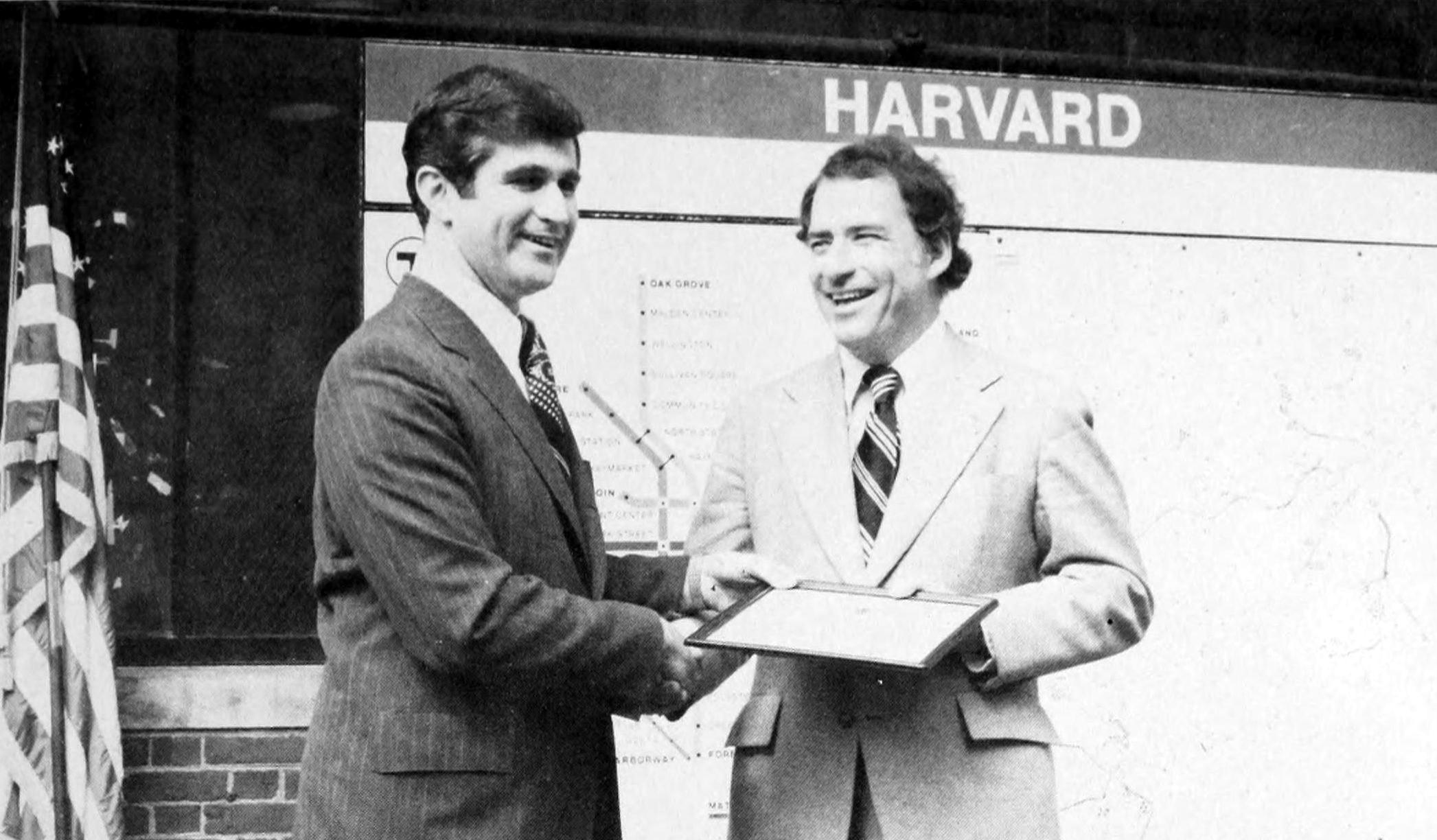 Paul Guzzi (left), Secretary of the Commonwealth and Chairman of the Massachusetts Historical Commission, presents a certificate to MBTA Chairman Robert R. Kiley in a ceremony at Harvard station in April 1978. The certificate officially named the headhouse to the National Register of Historic Places.